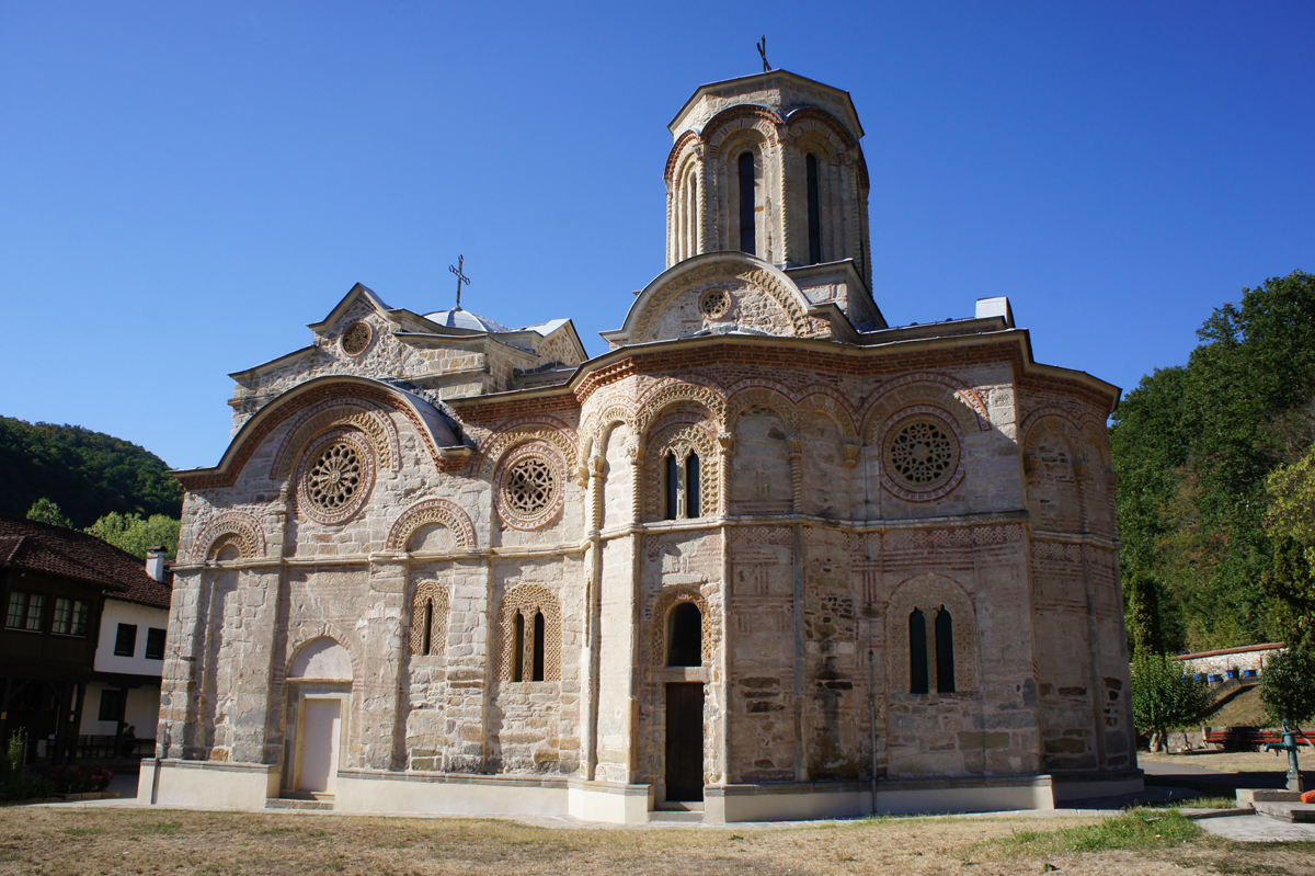 The church of Ljubostinja monastery in Serbia